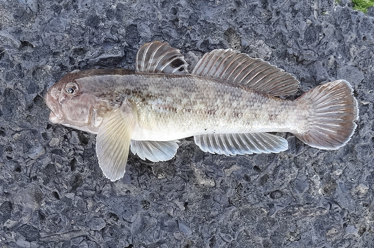 The round gobies are getting bigger in Netherlands